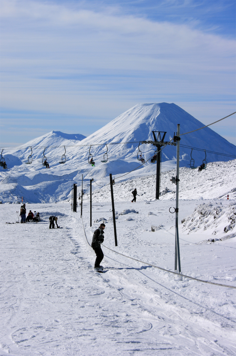 Mt. Ngauruhoe seen form the Hut Flat tow rope from the Whakapapa Ski Field